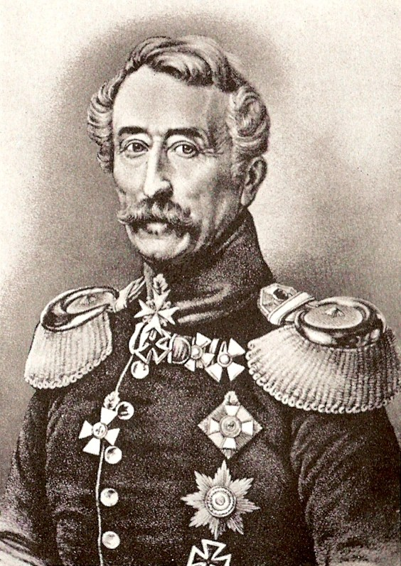 Wilhelm von Ditfurth (1780-1855), prussian general